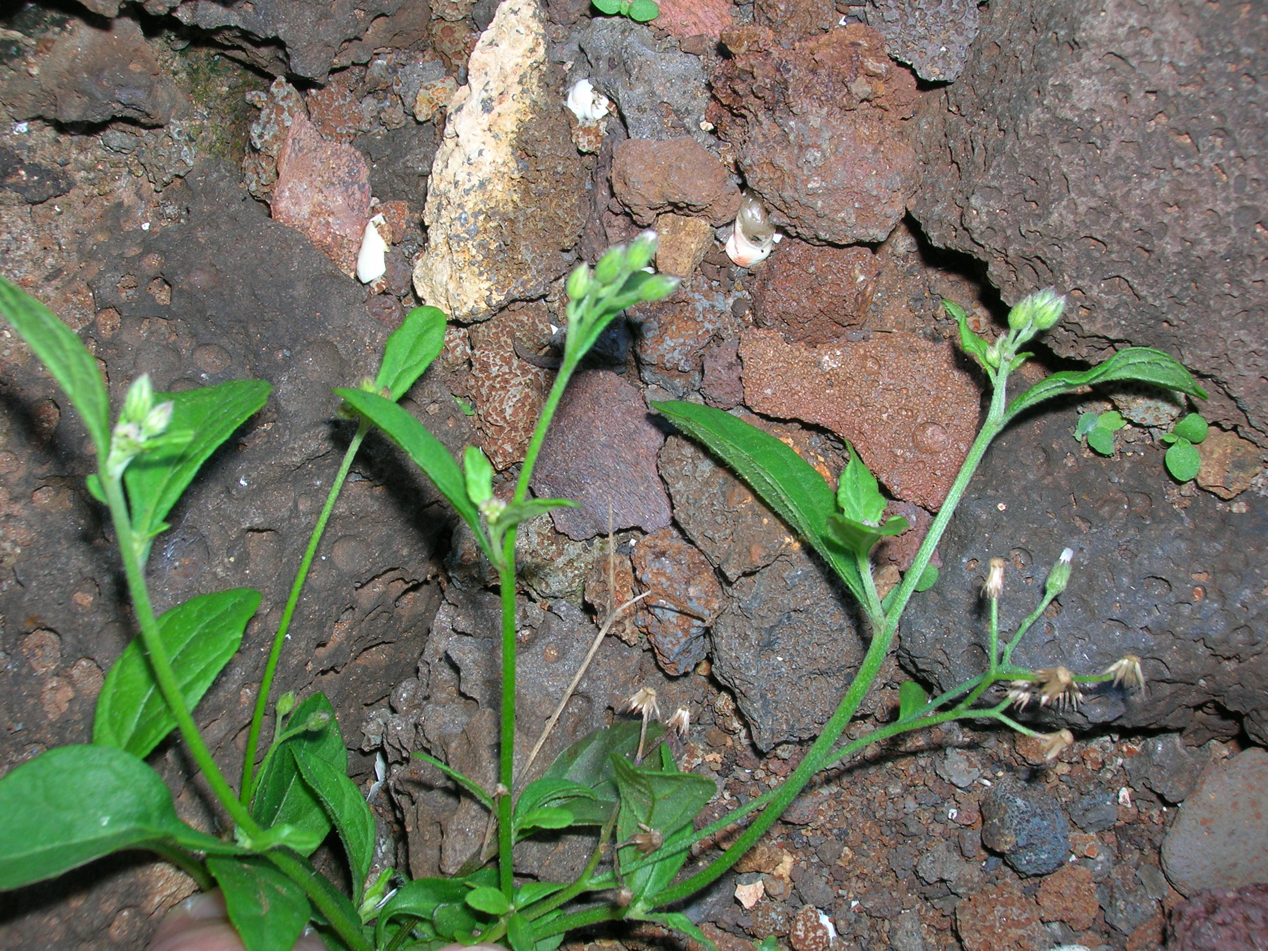 Cyanthillium cinereum (habit). Location: Lanai, Kiei